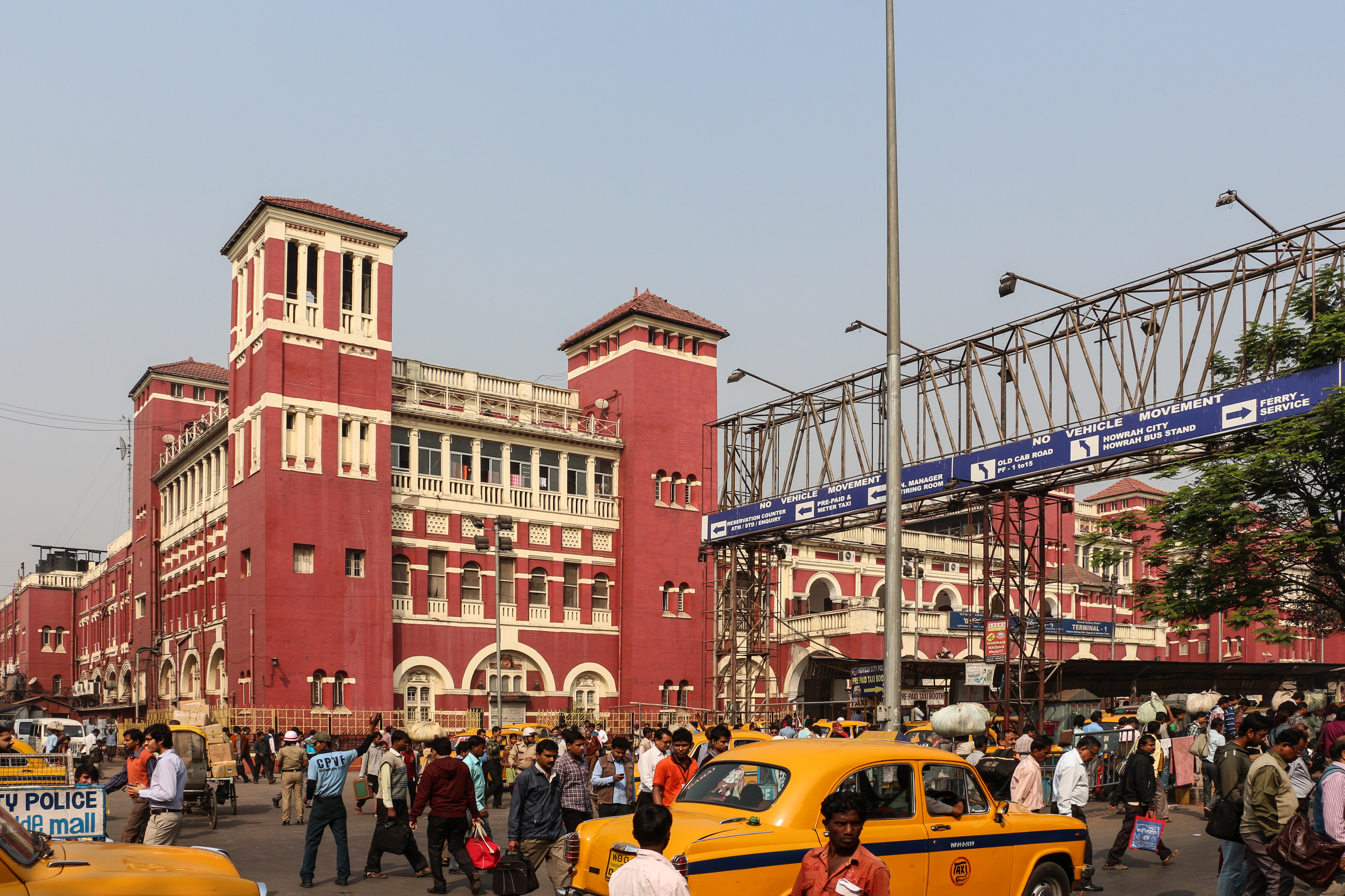 Howrah Railway Station, Howrah, India